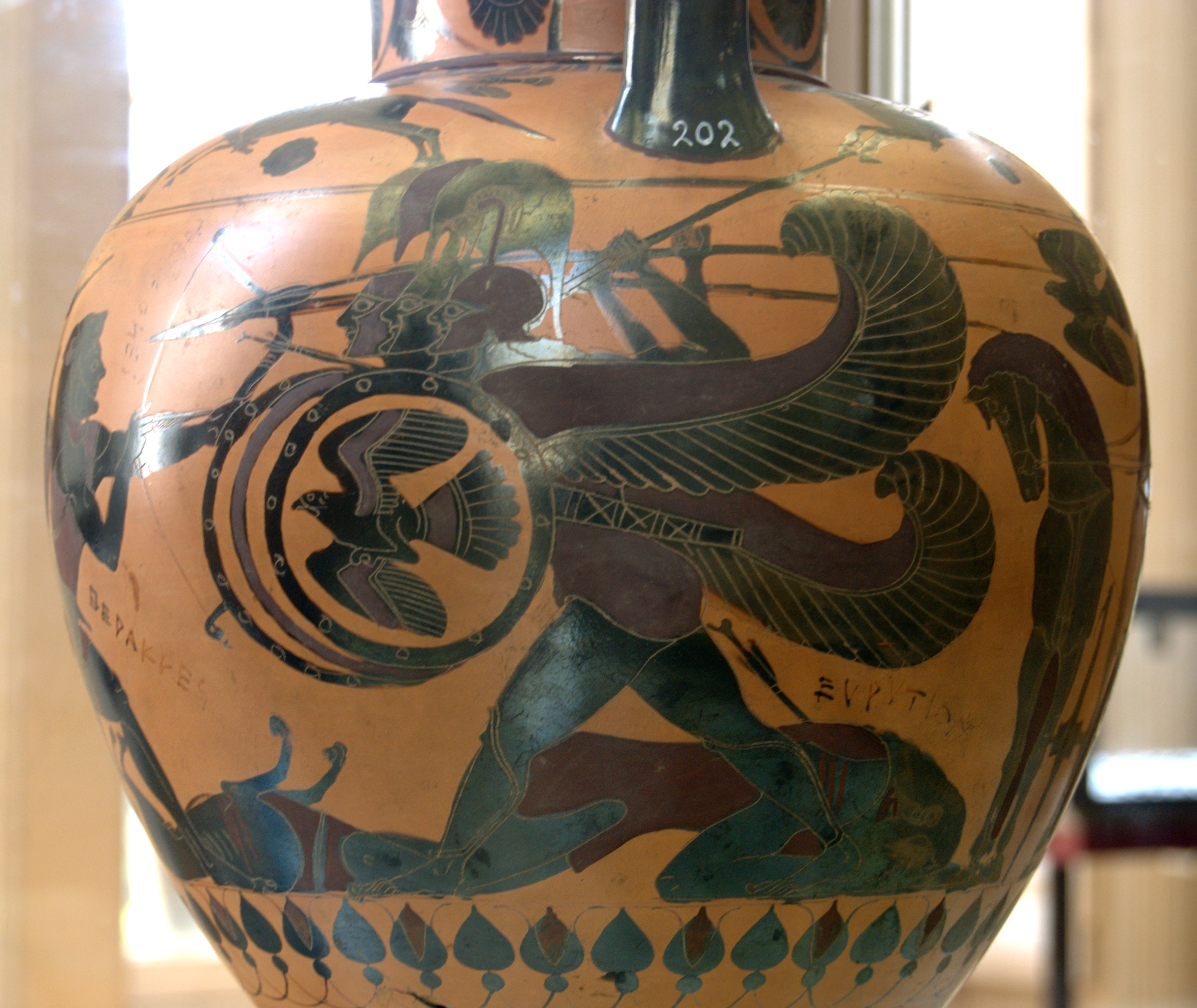 Heracles fighting with Geryon (dying Orthrus and Eurytion on the ground). Chalcidian black-figured amphora from South Italy, ca. 540 BC.